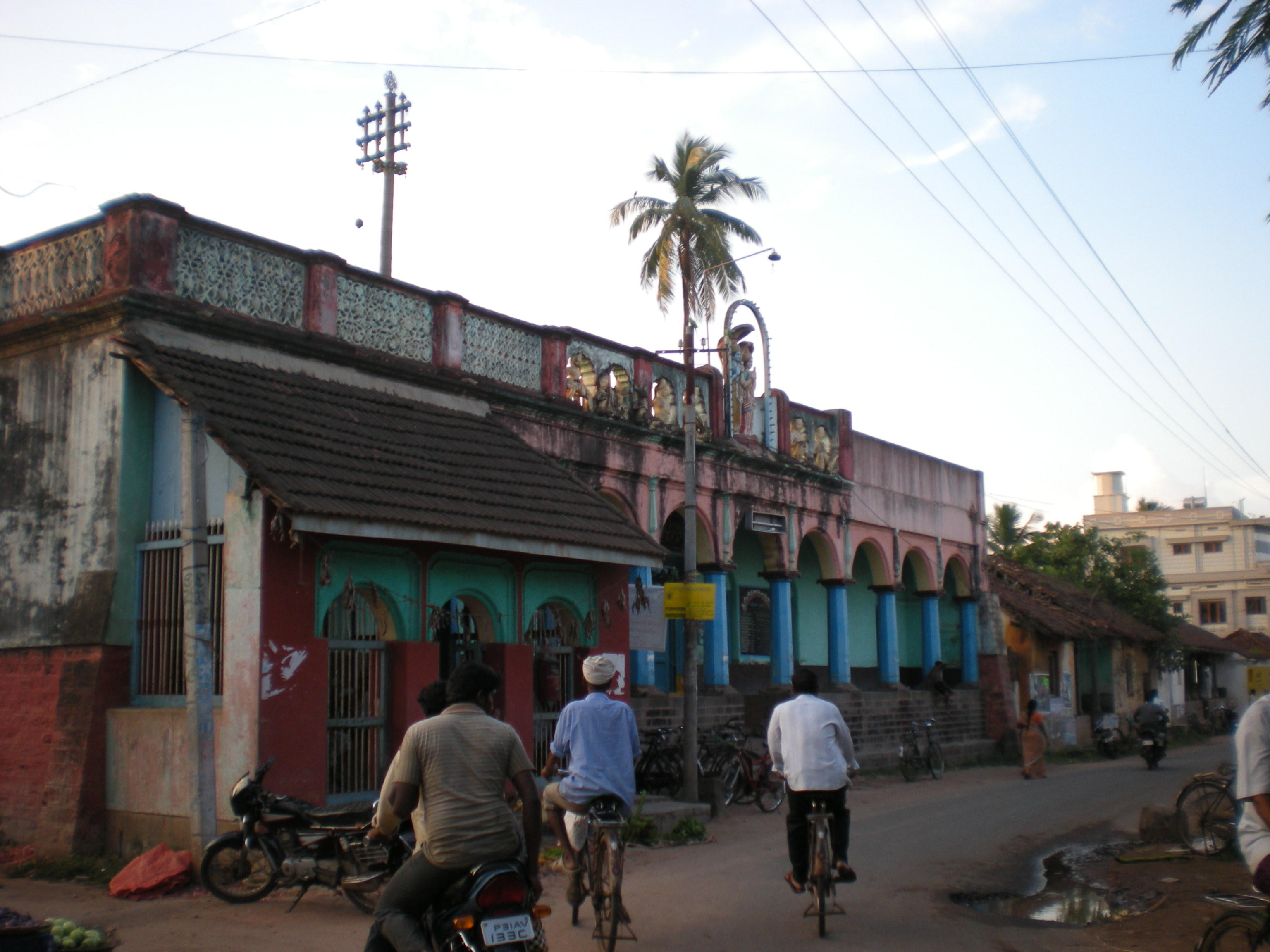 Achanta, Westgodavari Village of Andhrapradesh